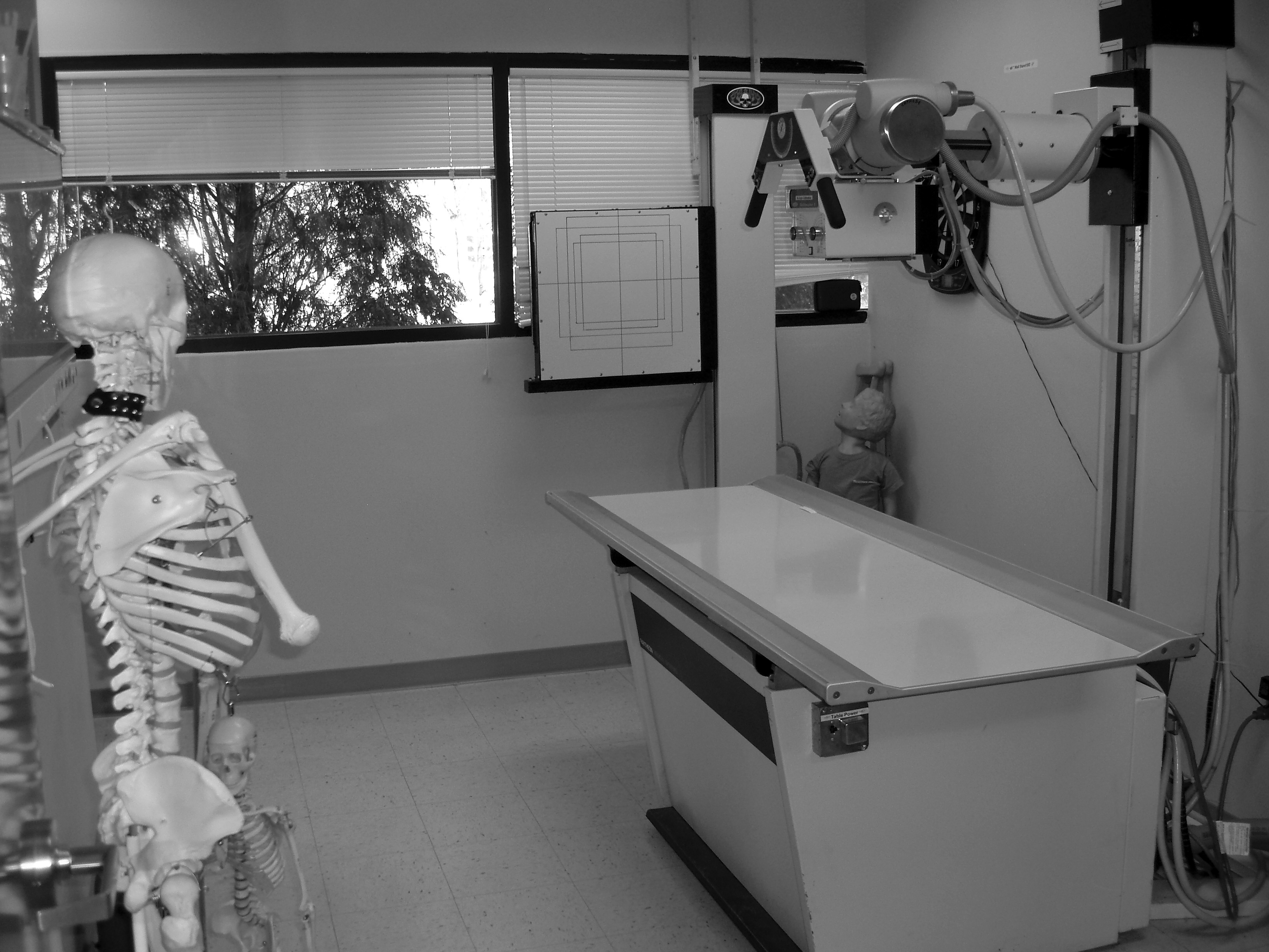 X-ray room at allied health college.